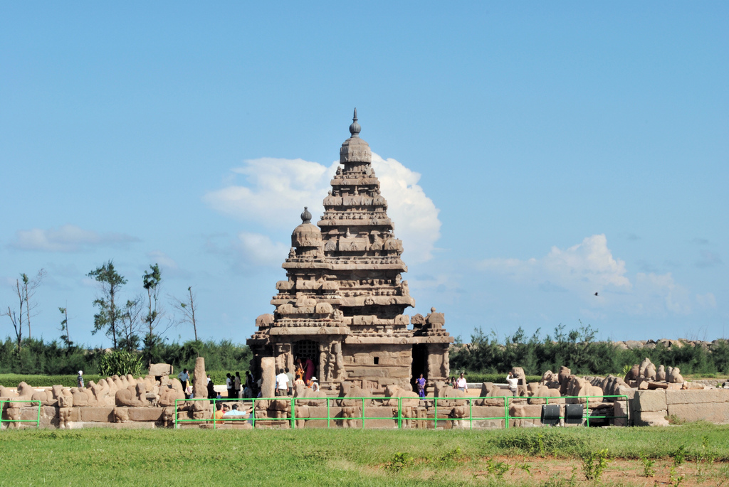 The famous Shore Temple in Mahabalipuram which is a UNESCO World Heritage Site.